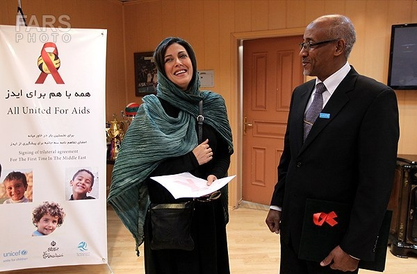 Mahtab Keramati and UNICEF Representative in Iran, Munir Safieldin, in the signing of trilateral agreement between I.R.I.V.F., UNICEF and Iranian Ministry of Health for "All United For Aids", 24 December 2013.